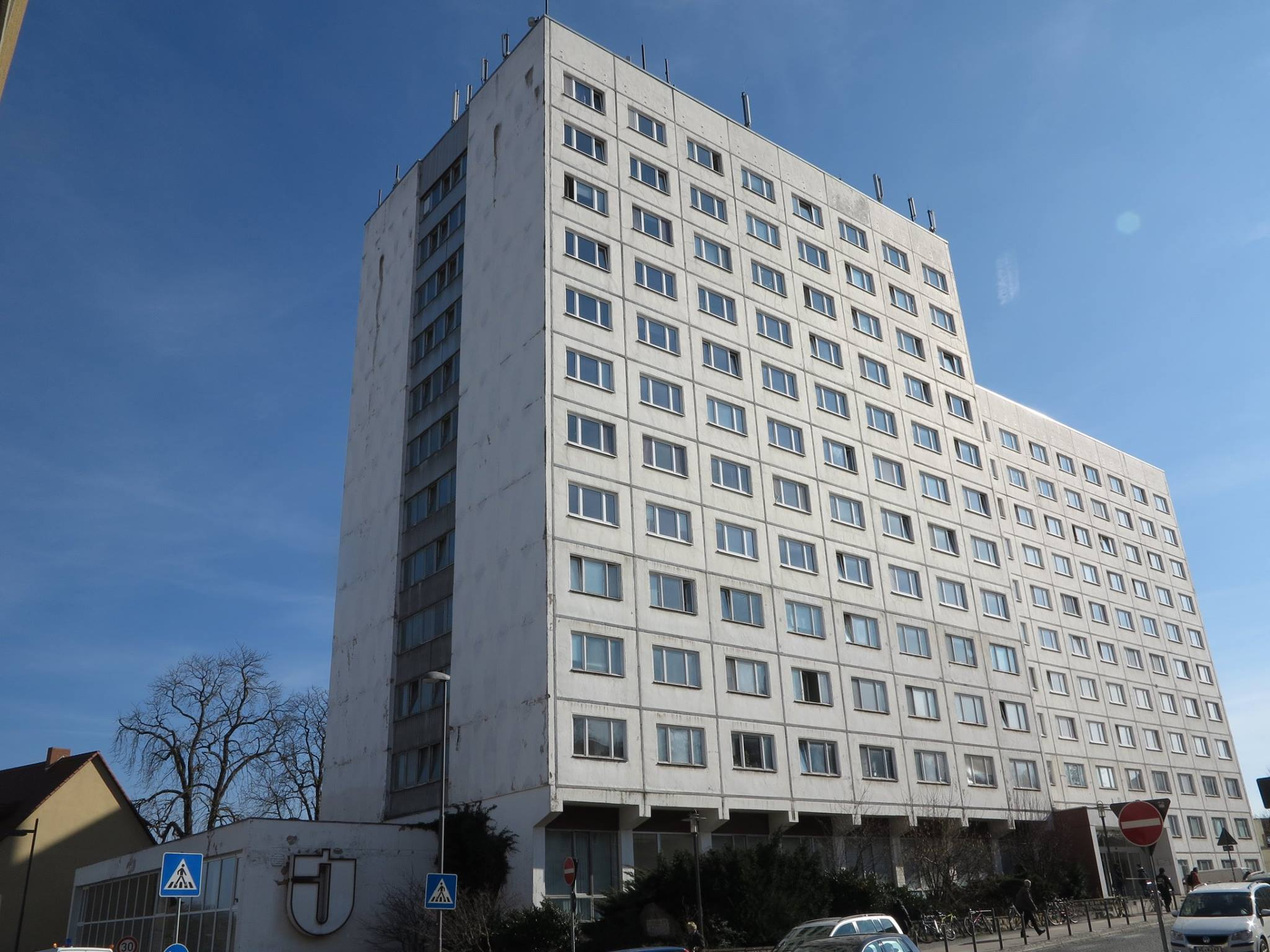 Student dormitory Jakobsplan in Weimar, Germany